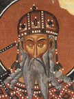 The fresco of king Vukašin Mrnjavčević, Psača monastery, Republic of Macedonia